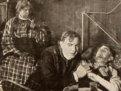 Still from the American western film Bullet Proof (1920) with Harry Carey, on page 3857 of the May 1, 1920 Motion Picture News.